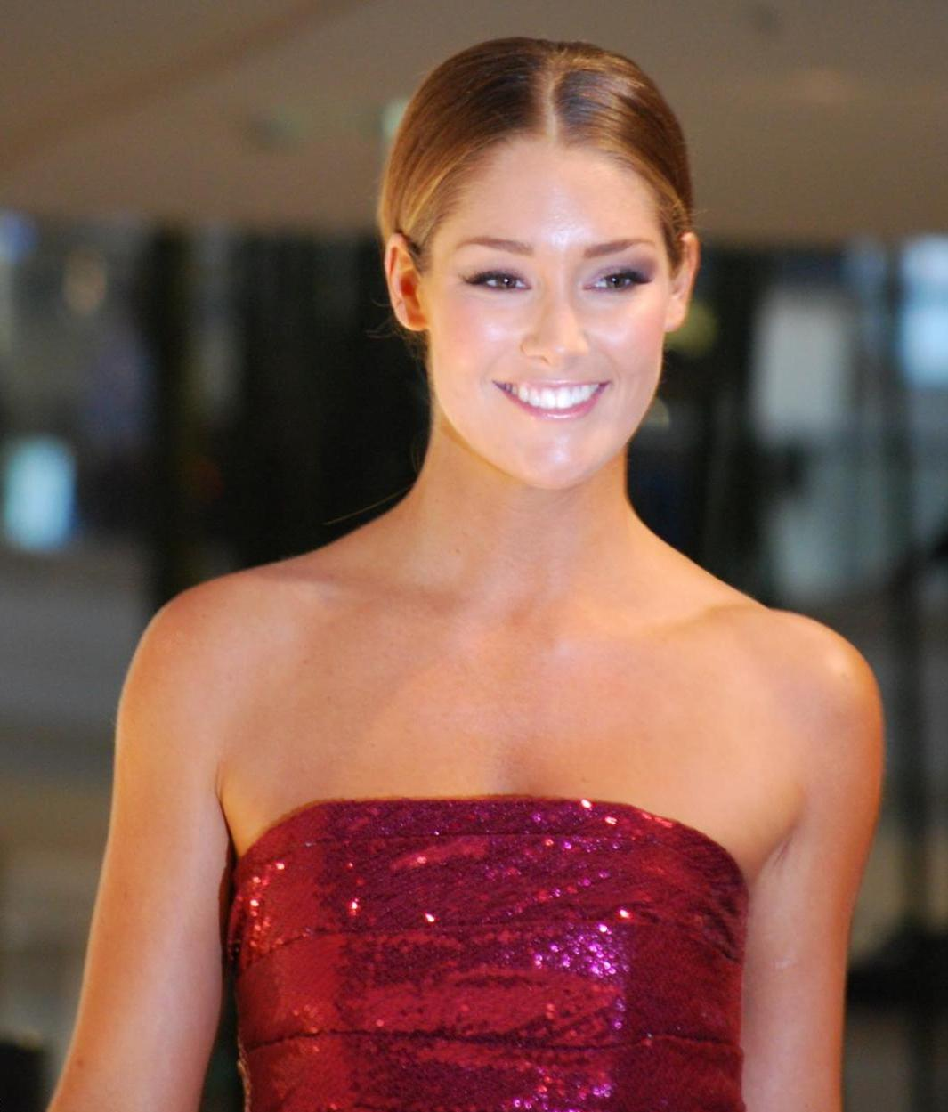 Erin McNaught in L'oreal Melbourne Fashion Festival 2010, Chadstone Shopping Centre.